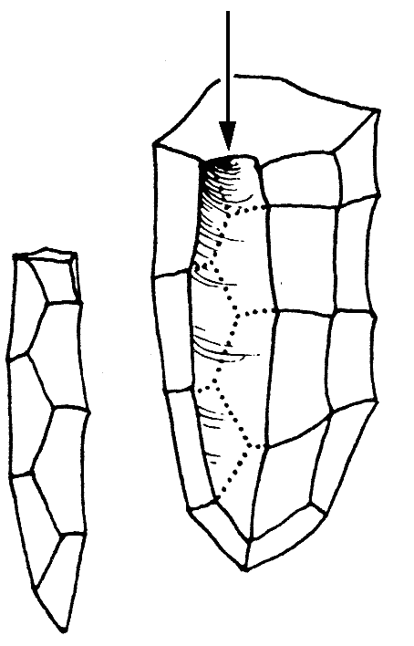 Crest-blade typicall of the preparation of core before begin of debitage of lames